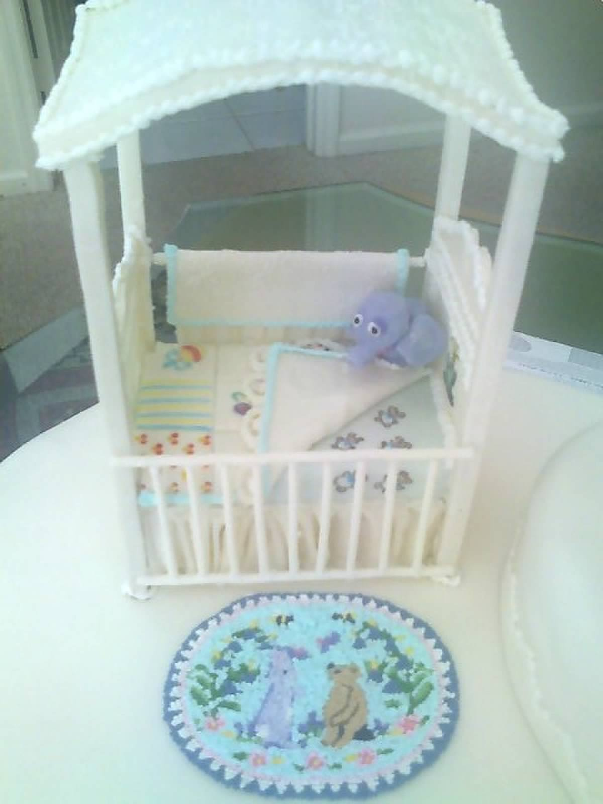 Baby shower cake